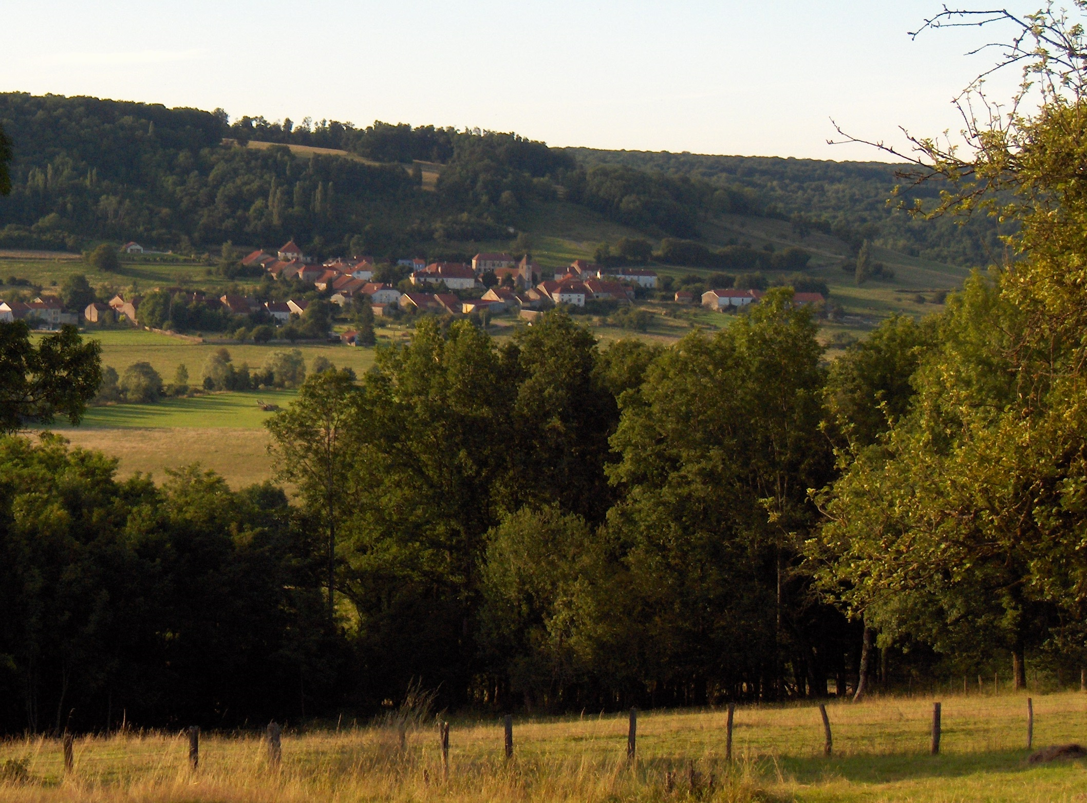 Photo of the village of Betoncourt Sur Mance